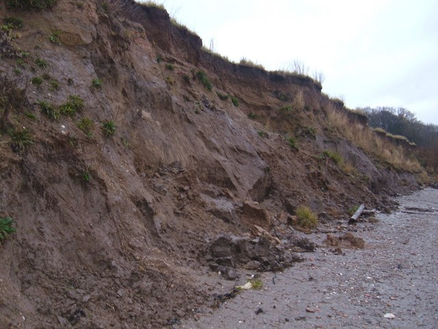 Red Cliff, Melton, East Riding of Yorkshire, England.